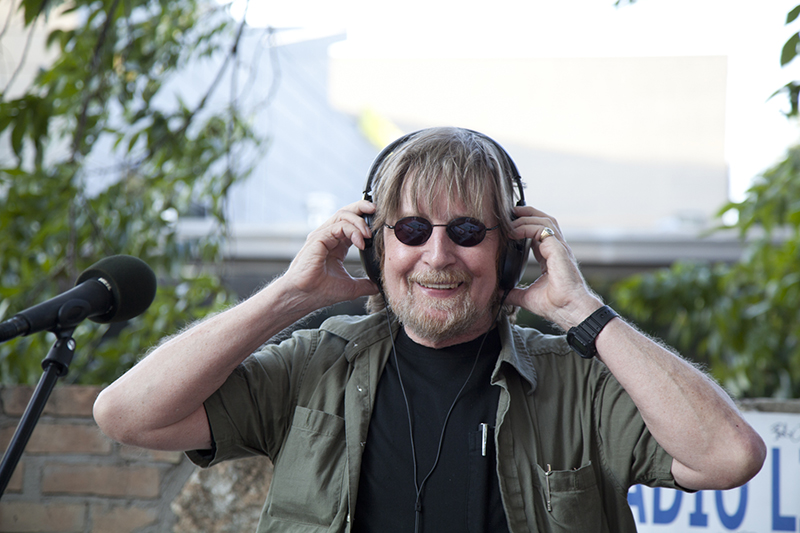 Larry Monroe founded and hosted Texas Radio Live on Sun Radio in Austin, Texas. Each week the program featured two guest bands who performed and and were interviewed by Monroe.